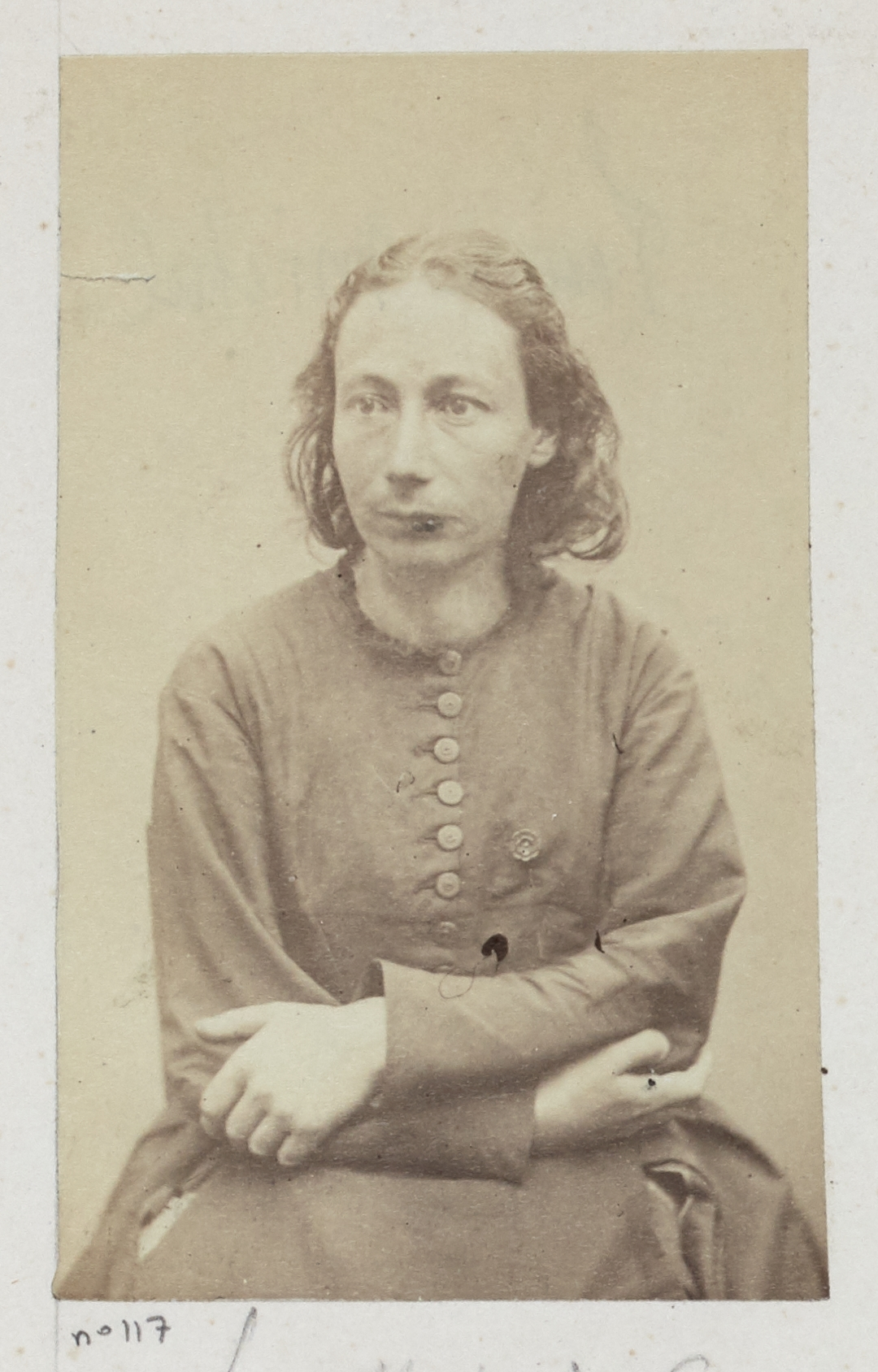 Louise Michel - Communard and Anarchist - in 1871. Prison photo.